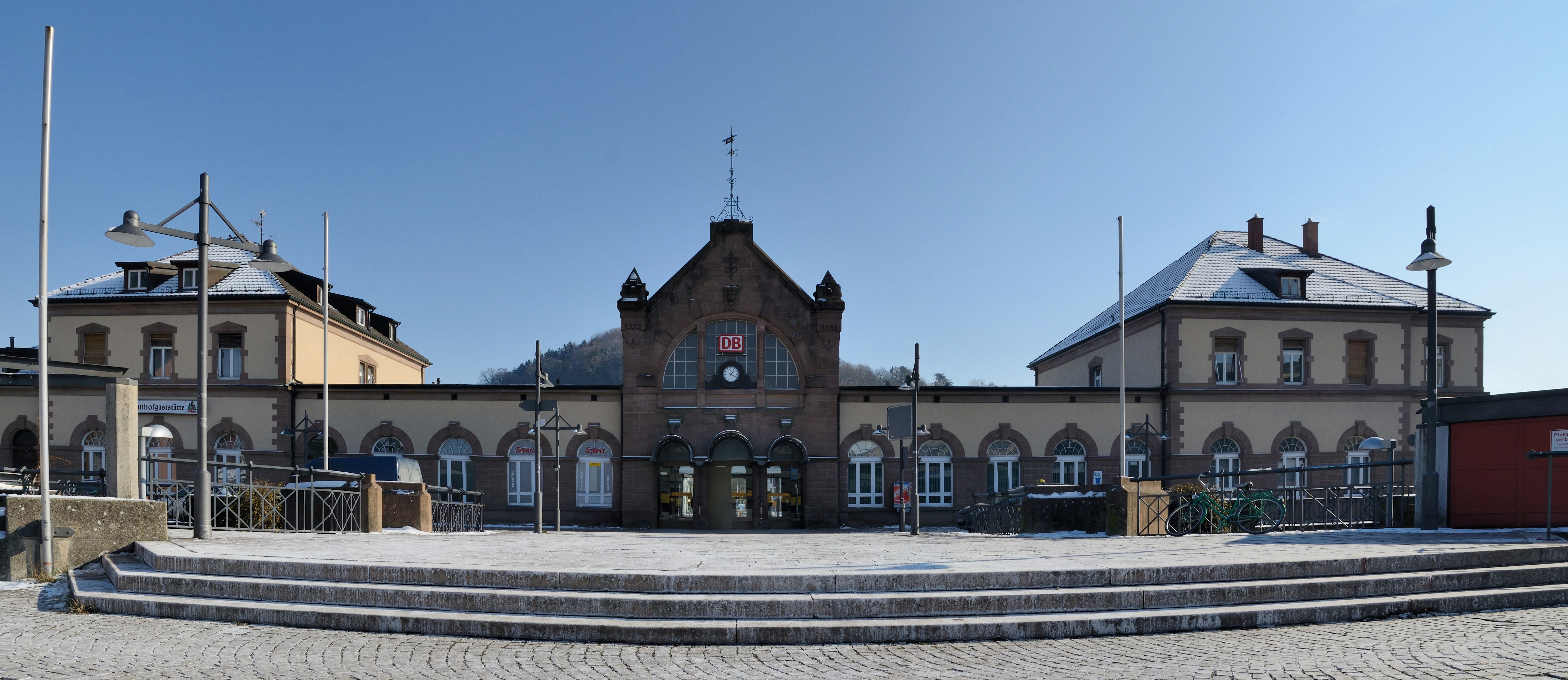 Lörrach: Central station